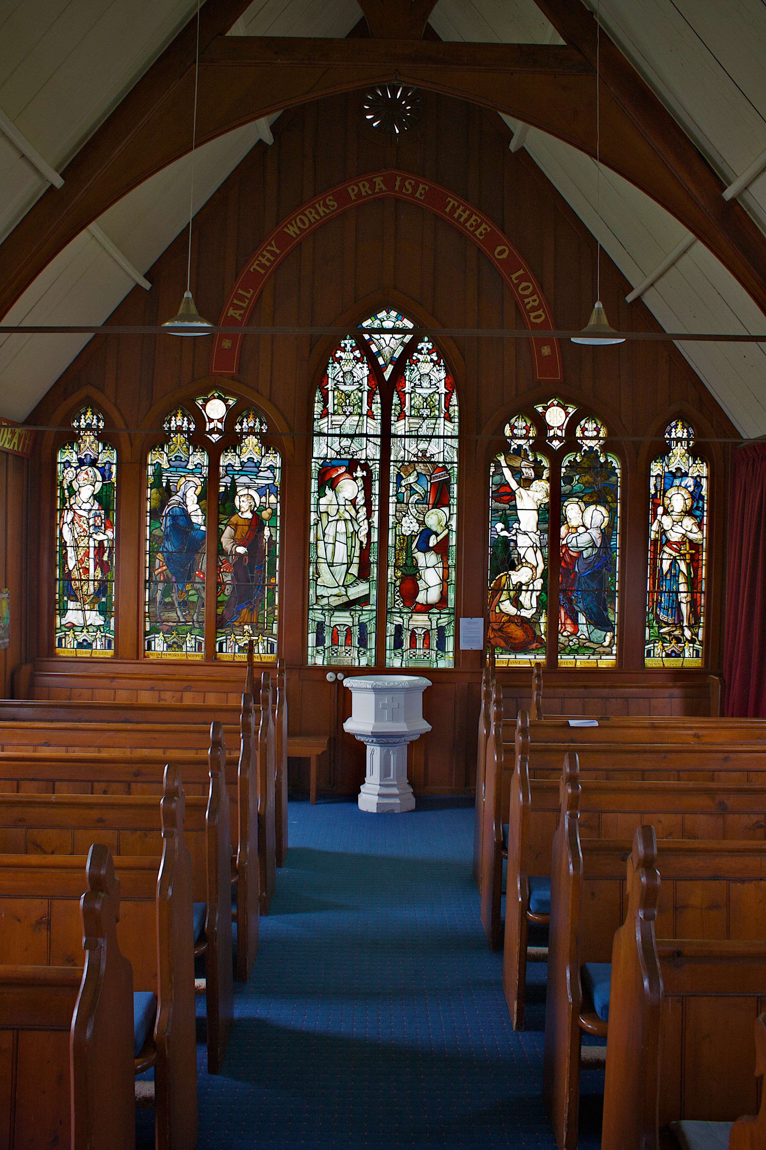 'West' end of St. Barnabas' Church, Warrington, Otago, New Zealand. Stained glass windows made in the Munich Studios of Franz Meyer and Franz-Xavier Zettler. Intended for a Catholic church in Brisbane, but payment was refused because of hostilities between Australia and Germany in the Great War, and the windows remained in storage in Dunedin en route. Purchased by the Anglican Bishop of Dunedin Samuel Nevill for installation in St Barnabas.